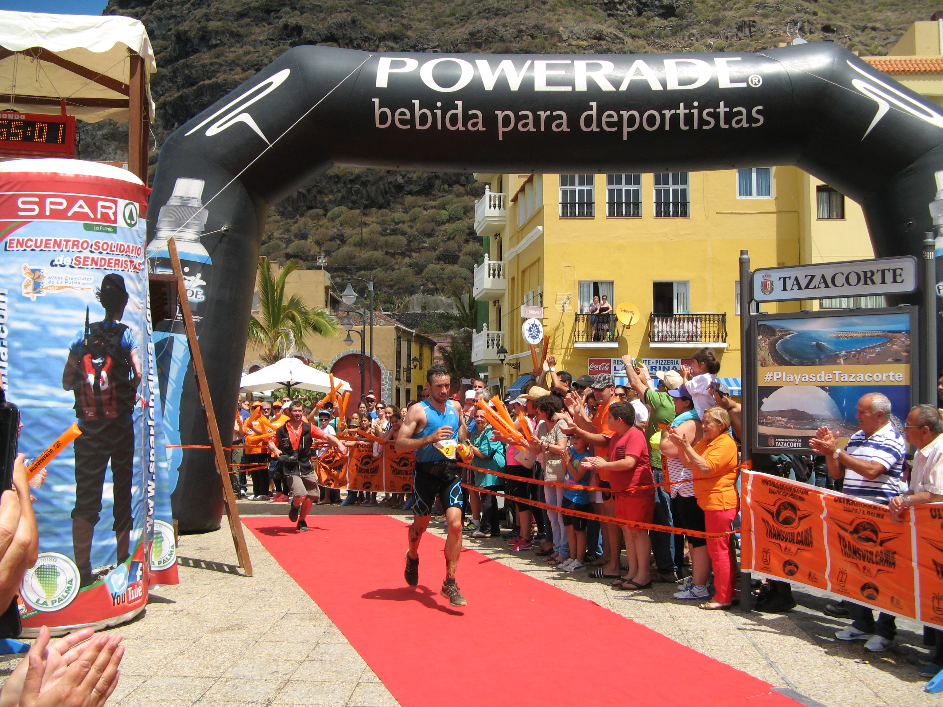 Luis Alberto Hernando (Spain) Winner of Transvulcania on 10 May 2014 for stretch Puerto Tazacorte